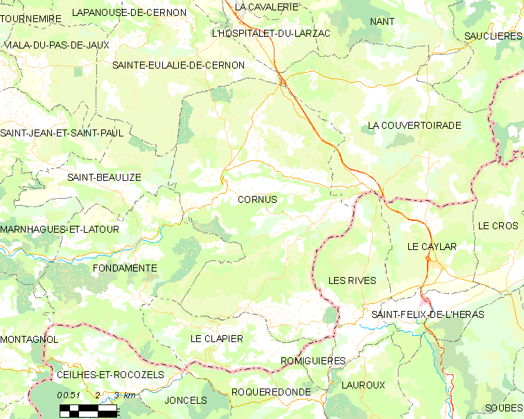 Map commune FR insee code 12077.png - Cornus (Aveyron)